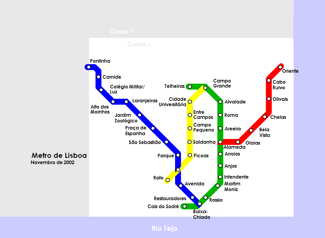 Map of Lisbon Metro in November 2002